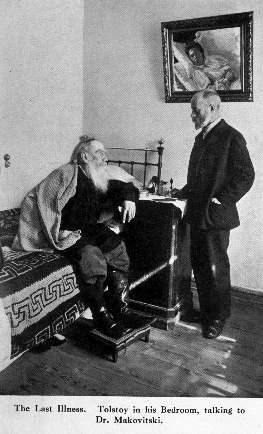 Leo Tolstoy in his bedroom at Yasnaya Polyana, just before his final flight from home in 1910.